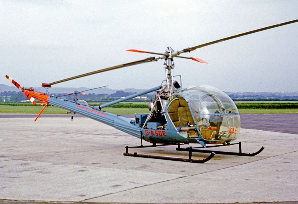 Hiller 360 UH-12C Helicopter of Bristow Helicopters at AAC Middle Wallop Hants